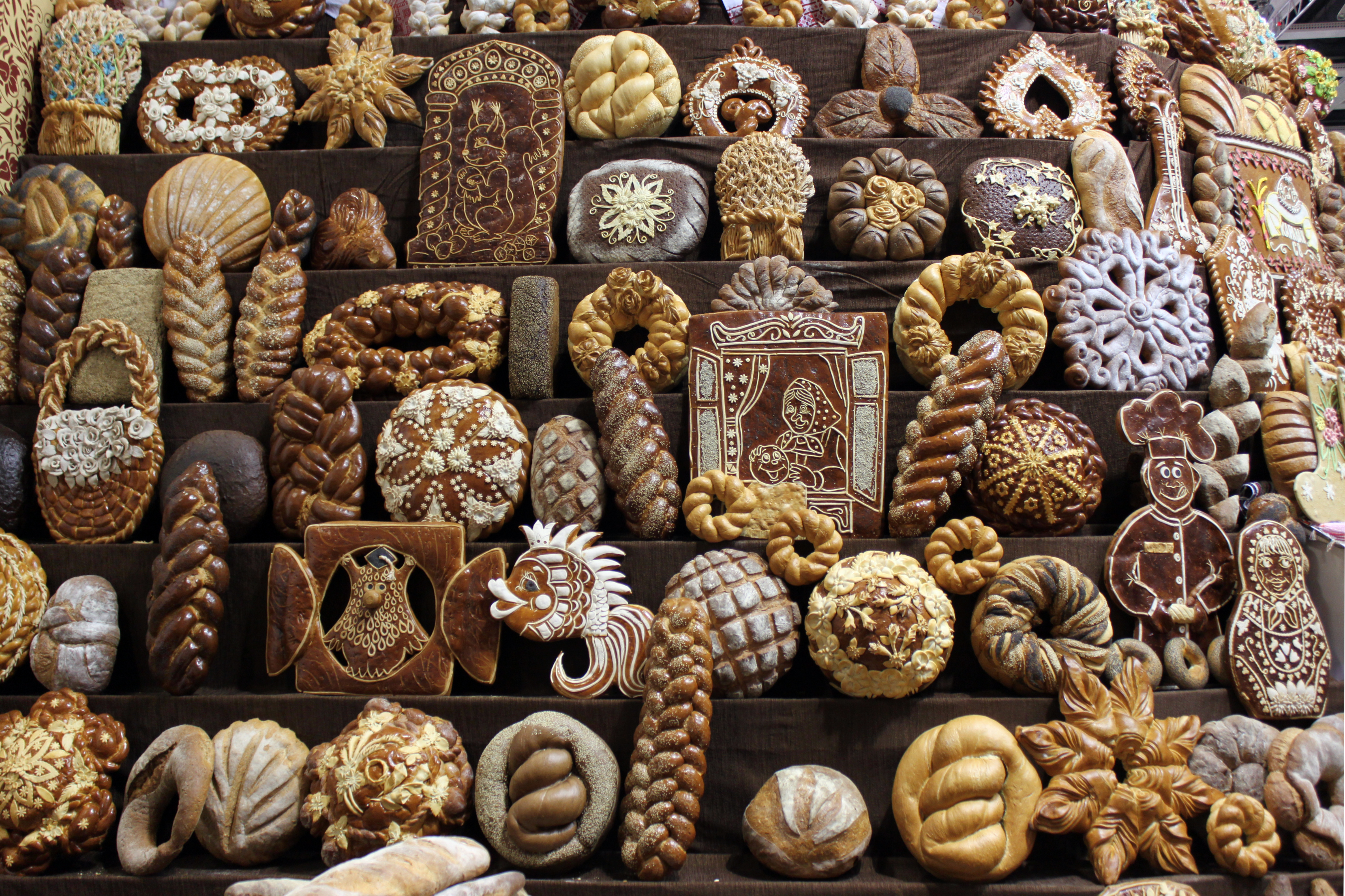 International Green Week (Grüne Woche) in Berlin on 24.01.2013